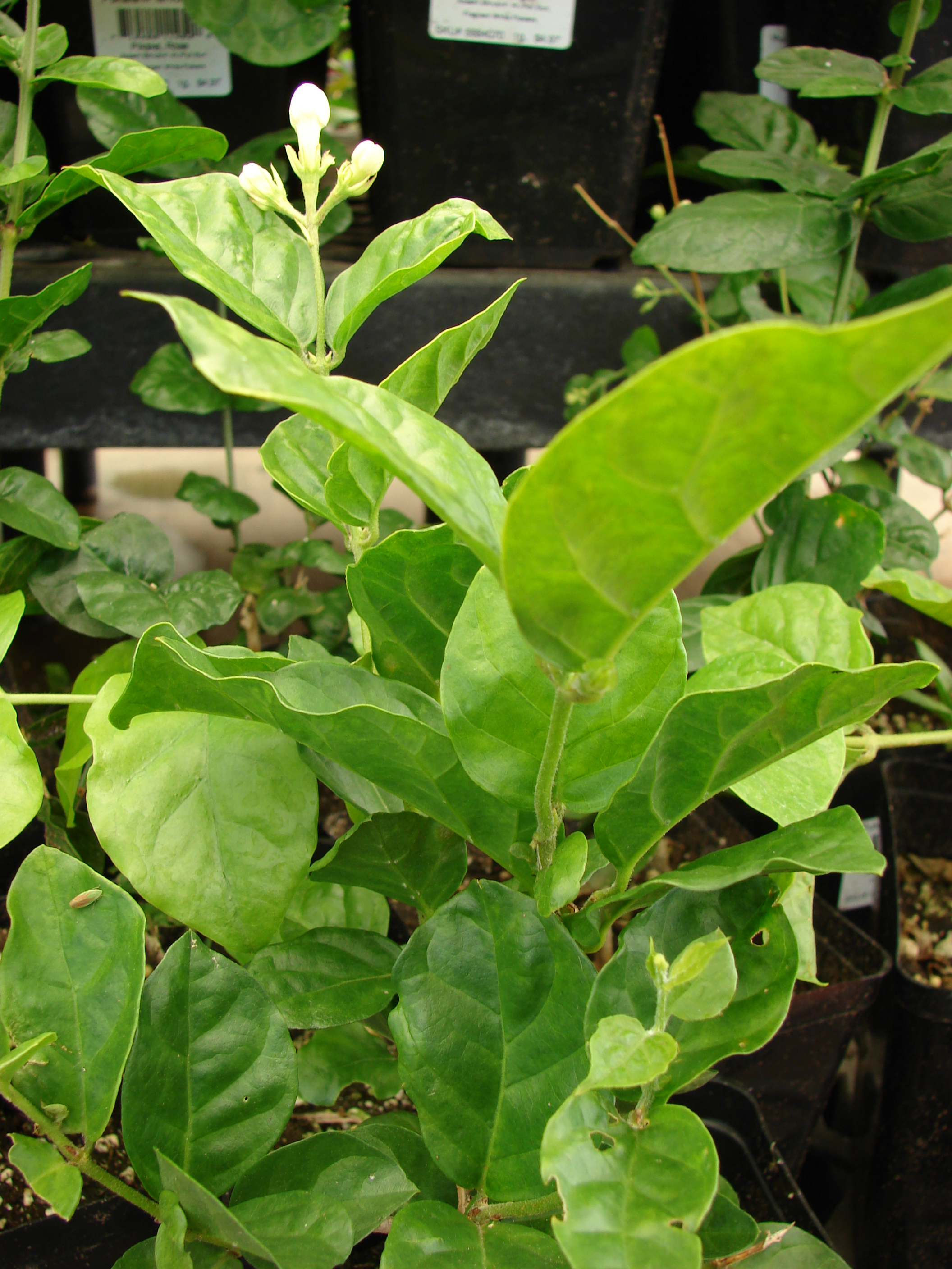 Jasminum sambac (habit). Location: Maui, Walmart Kahului